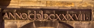 Year on the tower in Roman numbers